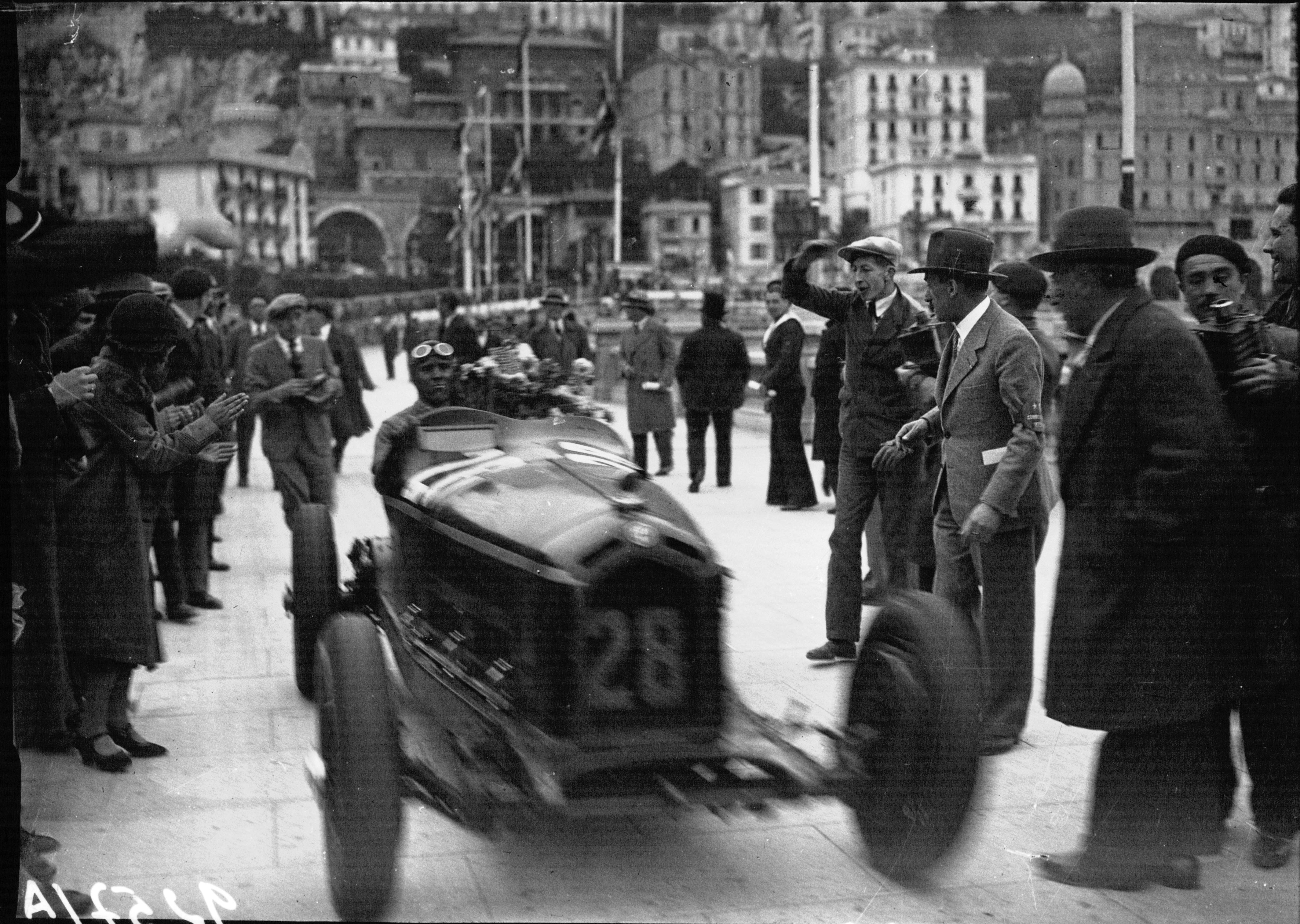 Tazio Nuvolari at the 1932 Monaco Grand Prix with Alfa Romeo Monza 2.3